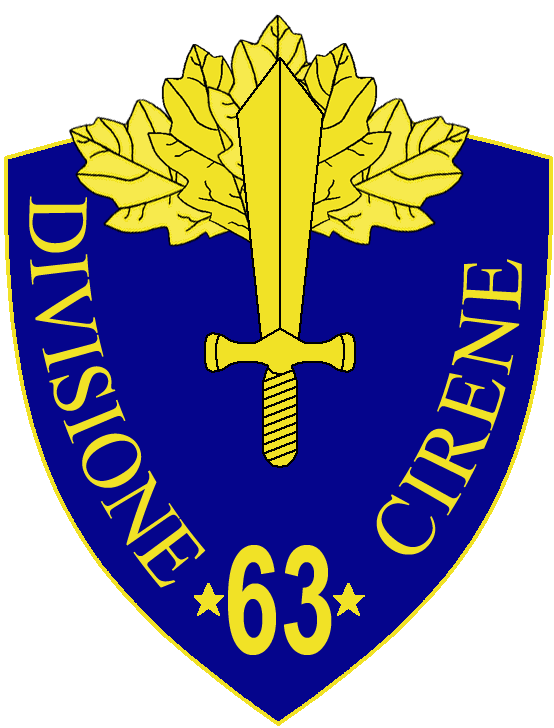 63a Divisione Fanteria Cirene insignia, Regio Esercito, Italy, WWII